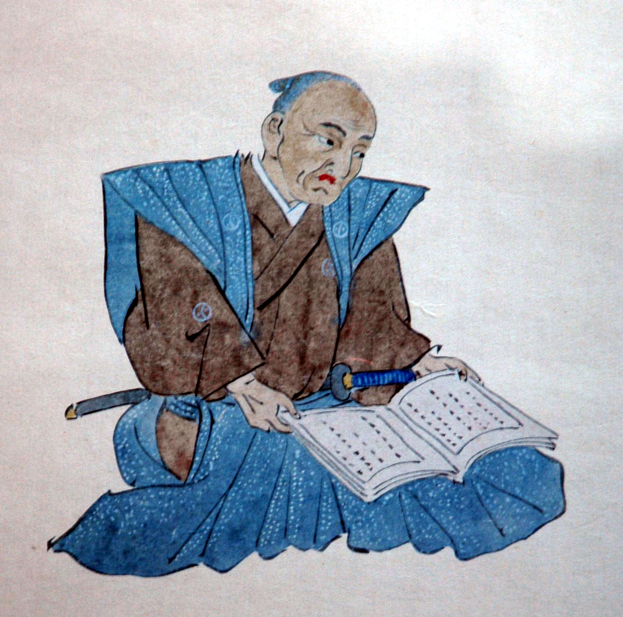 photo of Kumazawa Banzan portrait(Japanese scholar of Confucianism in the early Edo period)